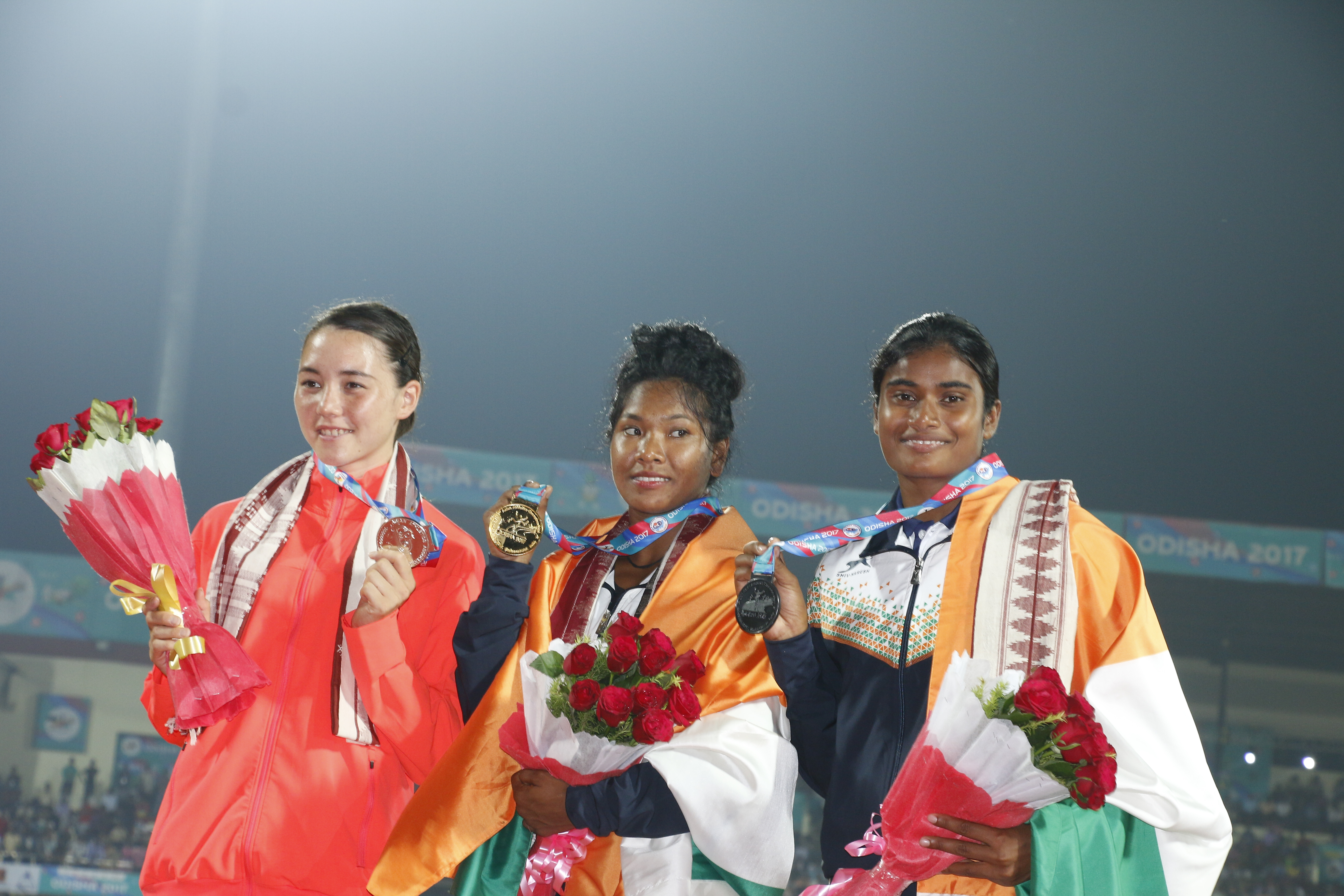 Athletes during 22nd Asian Athletics Championships in Bhubaneswar.